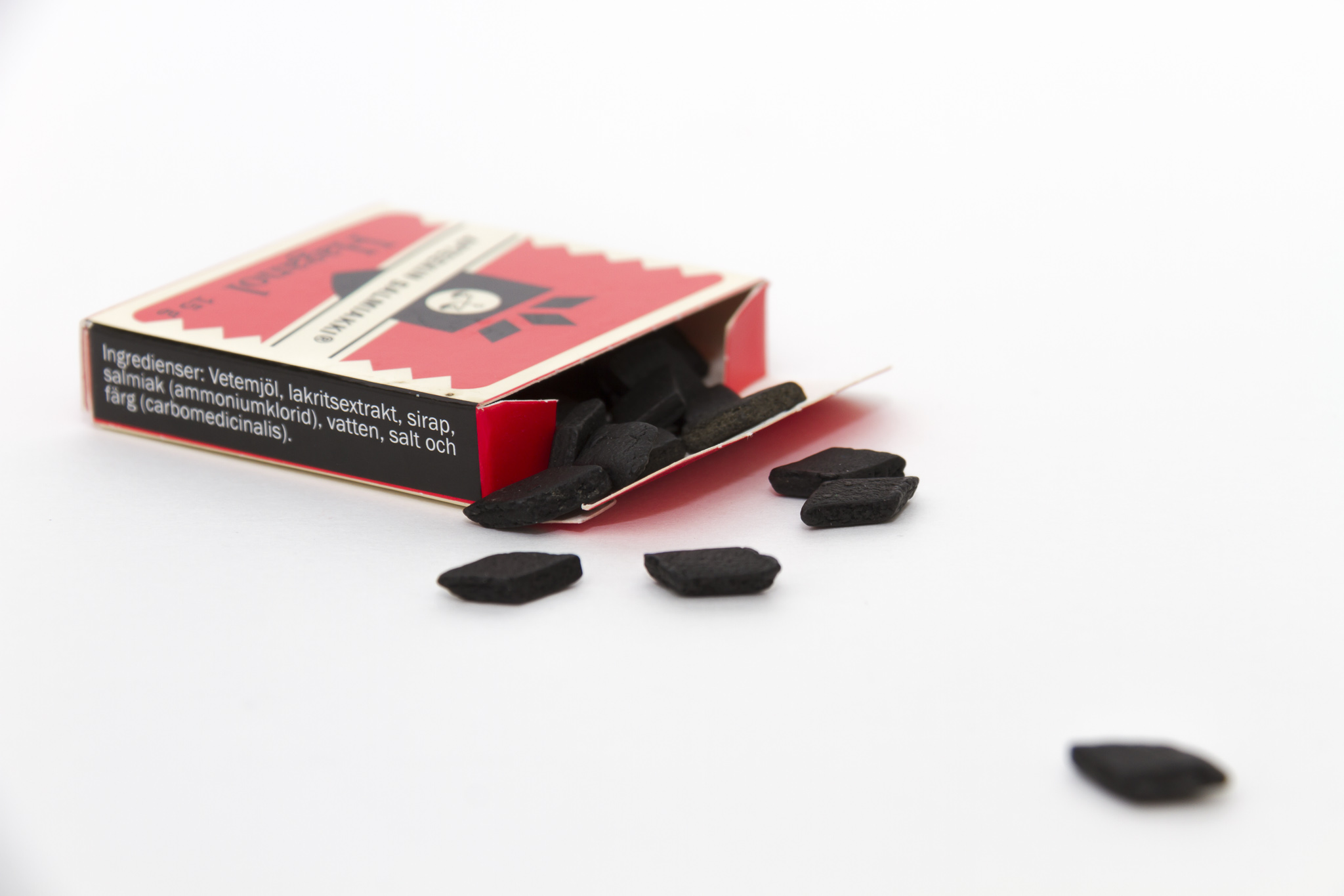 Apteekin salmiakki carton